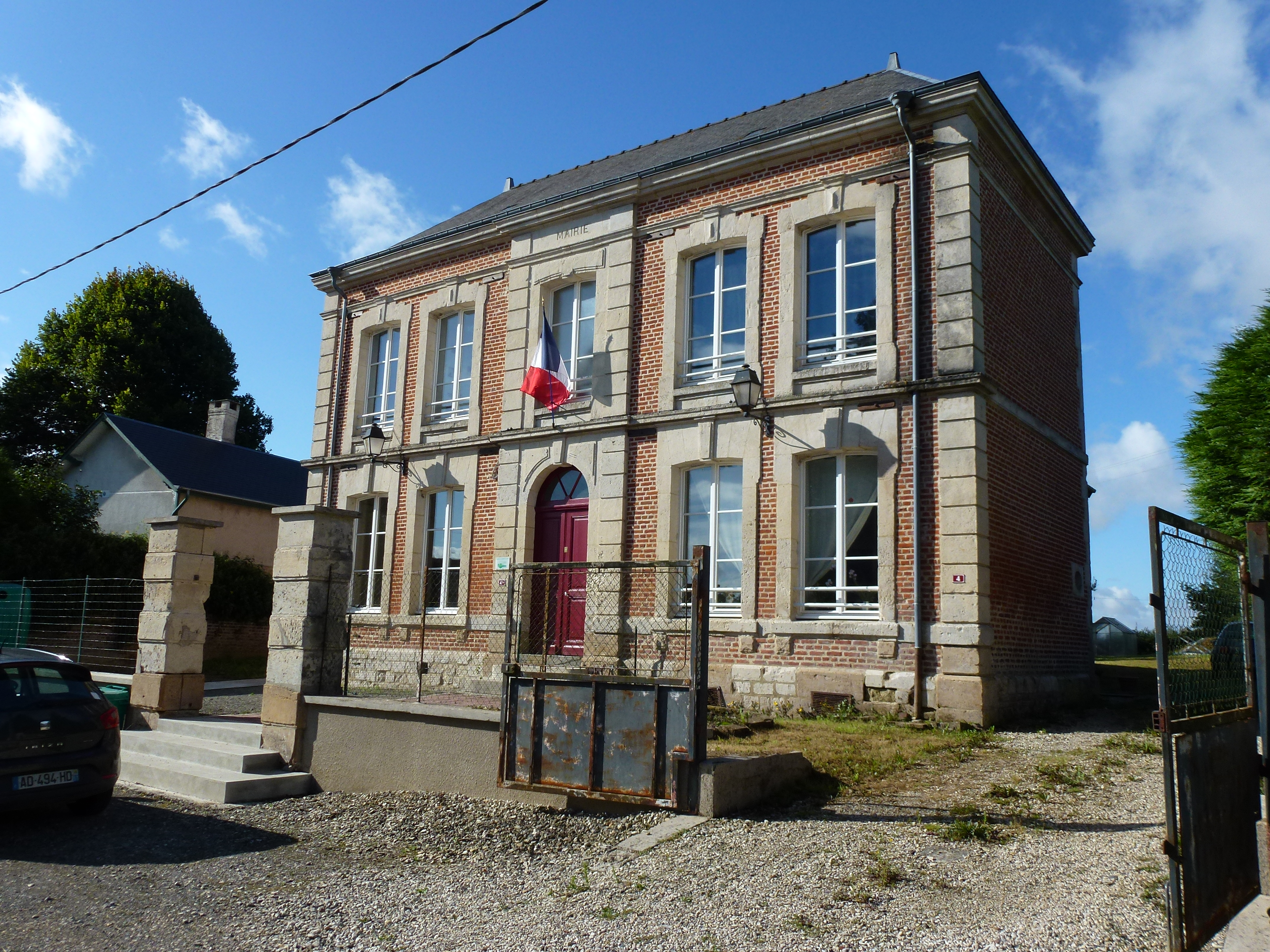 Justine-Herbigny (Ardennes) mairie Herbigny